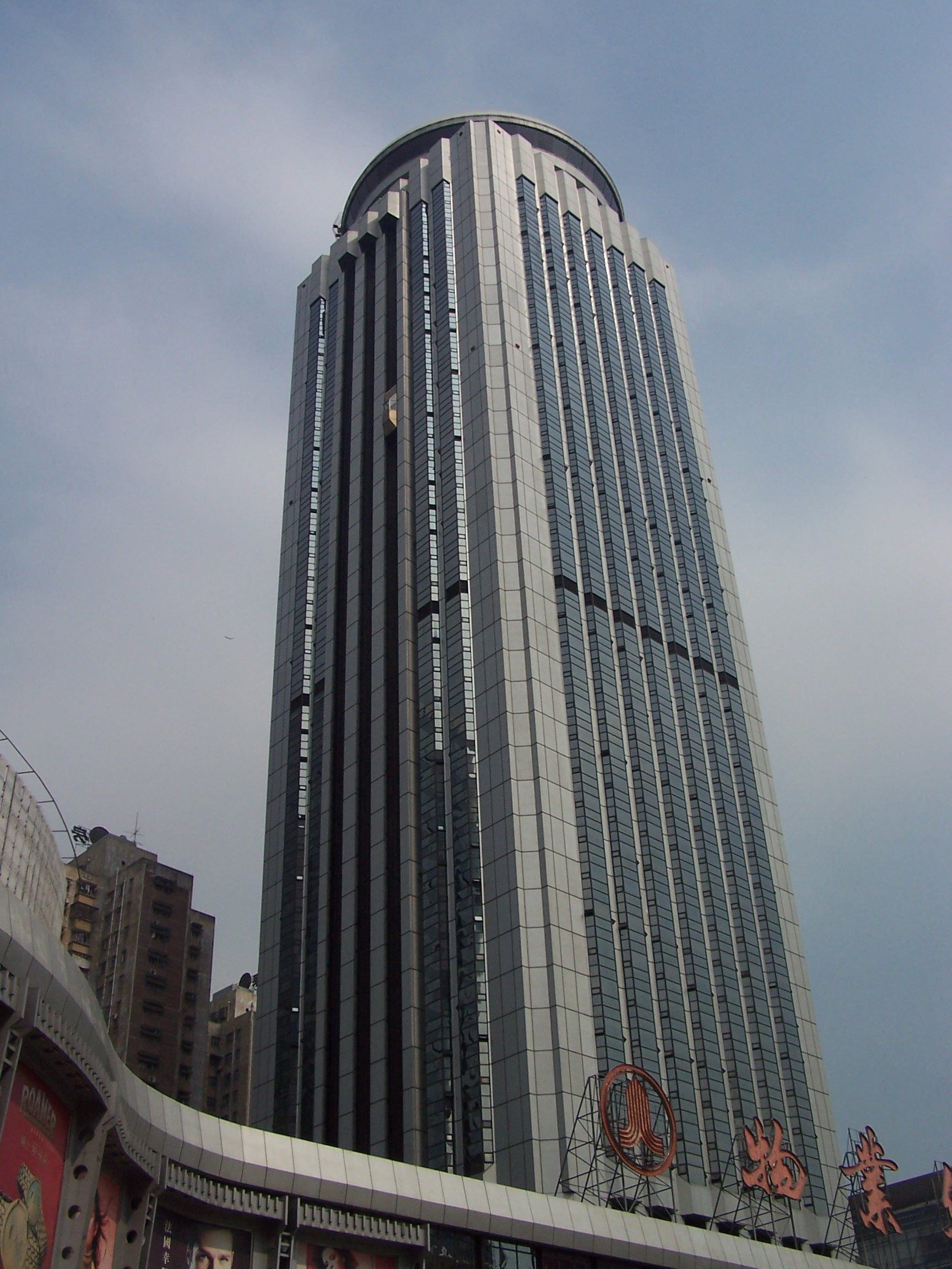 The International Trade Building in Shenzhen, China. 中国深圳国贸大厦。 中國深圳囯貿大廈。